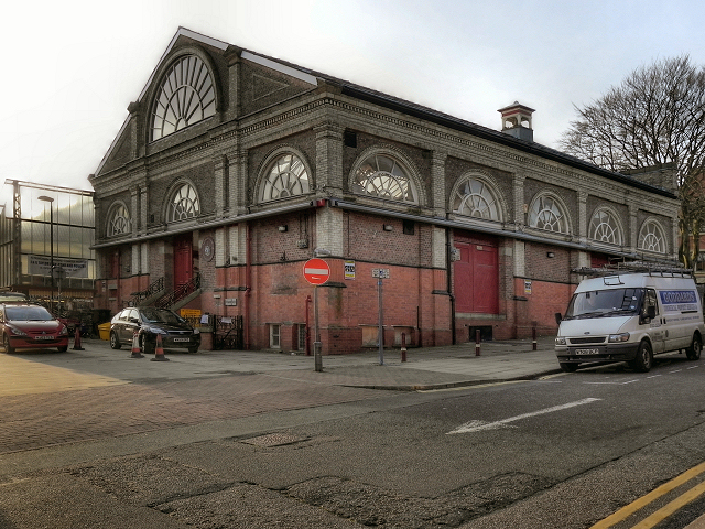 Altrincham's Victorian Market Hall, at the corner of Shaw's Road and Market Street, was built in 1879. It is a listed building.